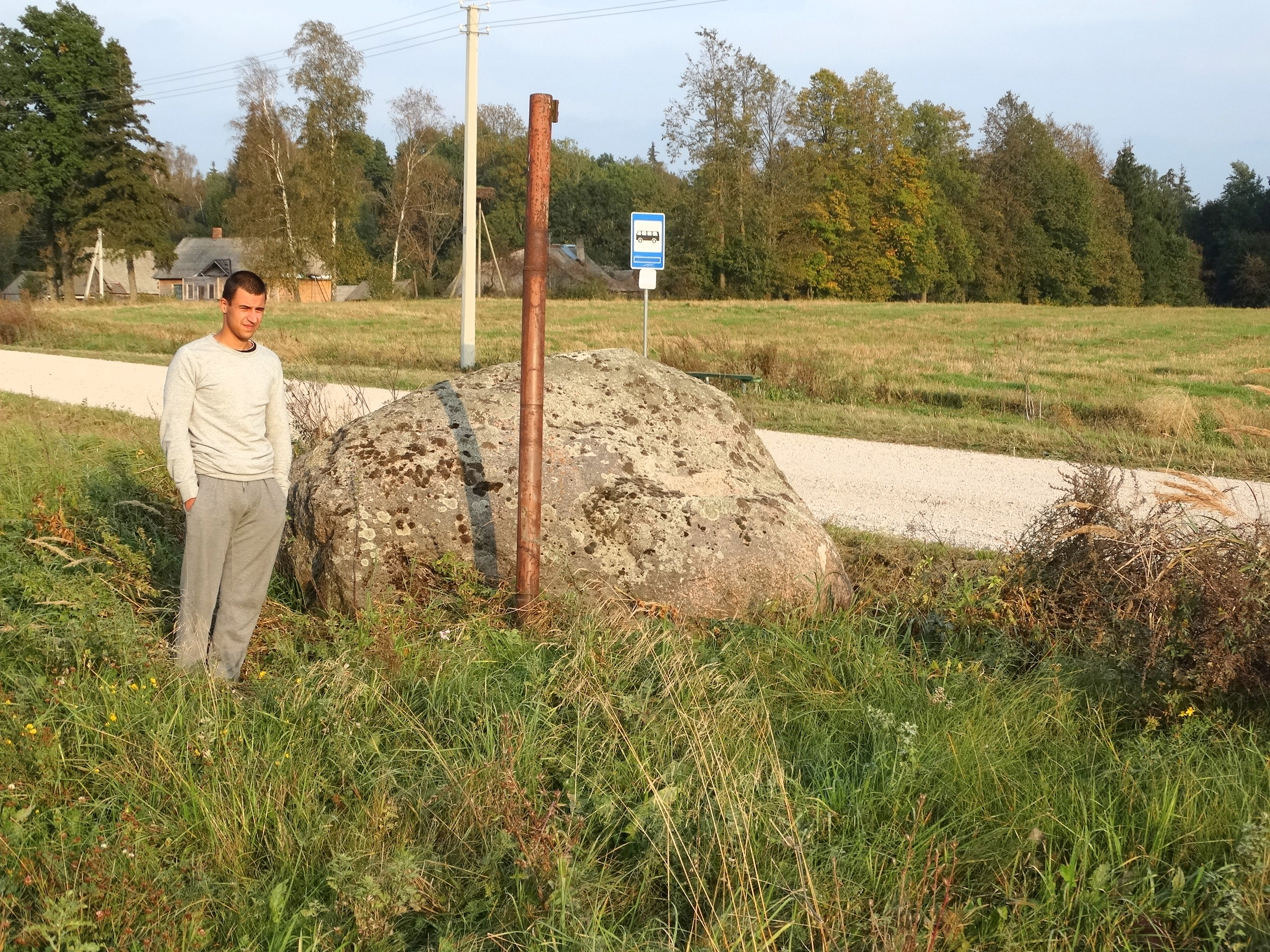 Avinėliai stone, Kaišiadorys District, Lithuania